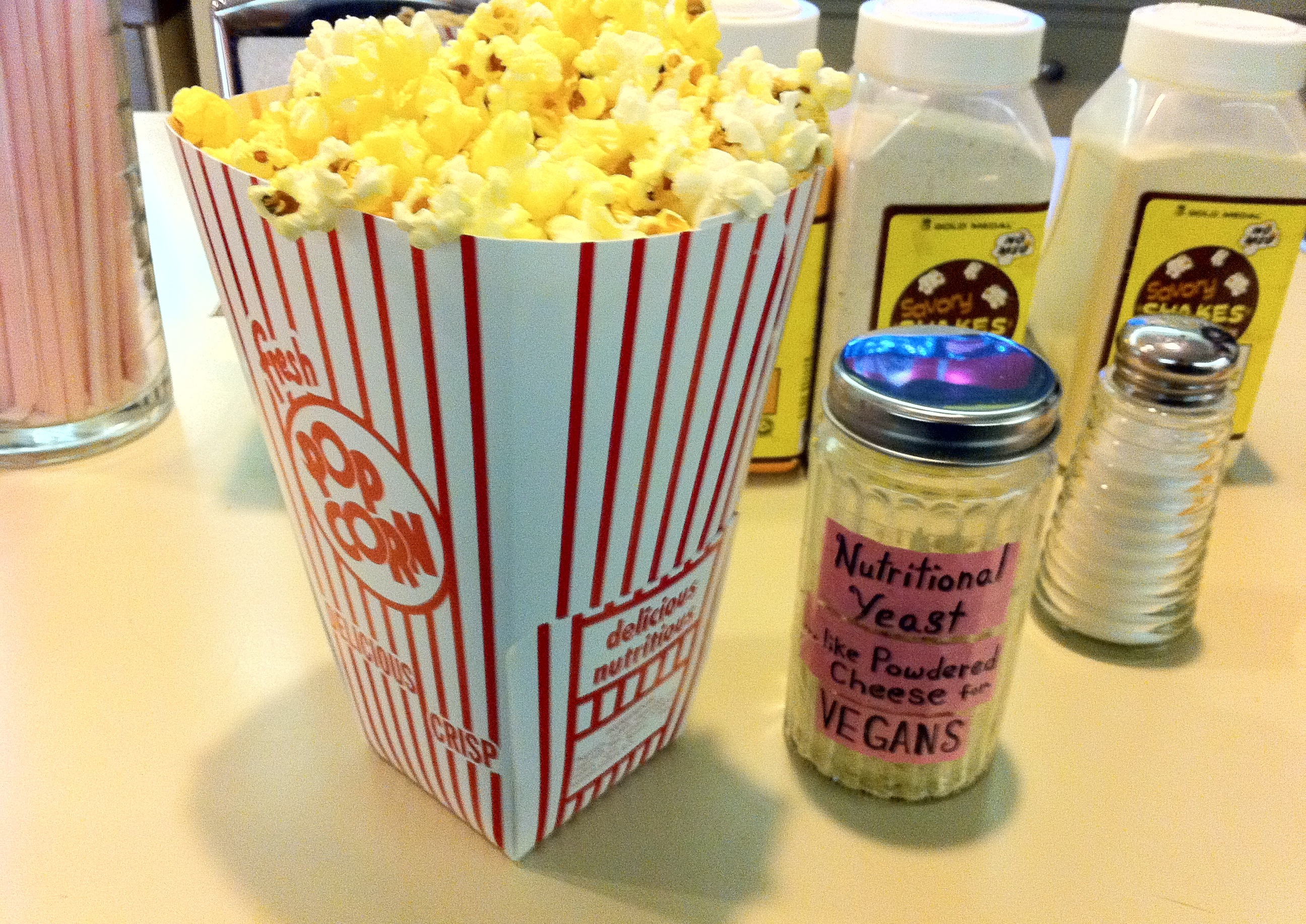 Movie Theater Plaza Theater in Atlanta serves popcorn with nutritional yeast for vegan visitors.